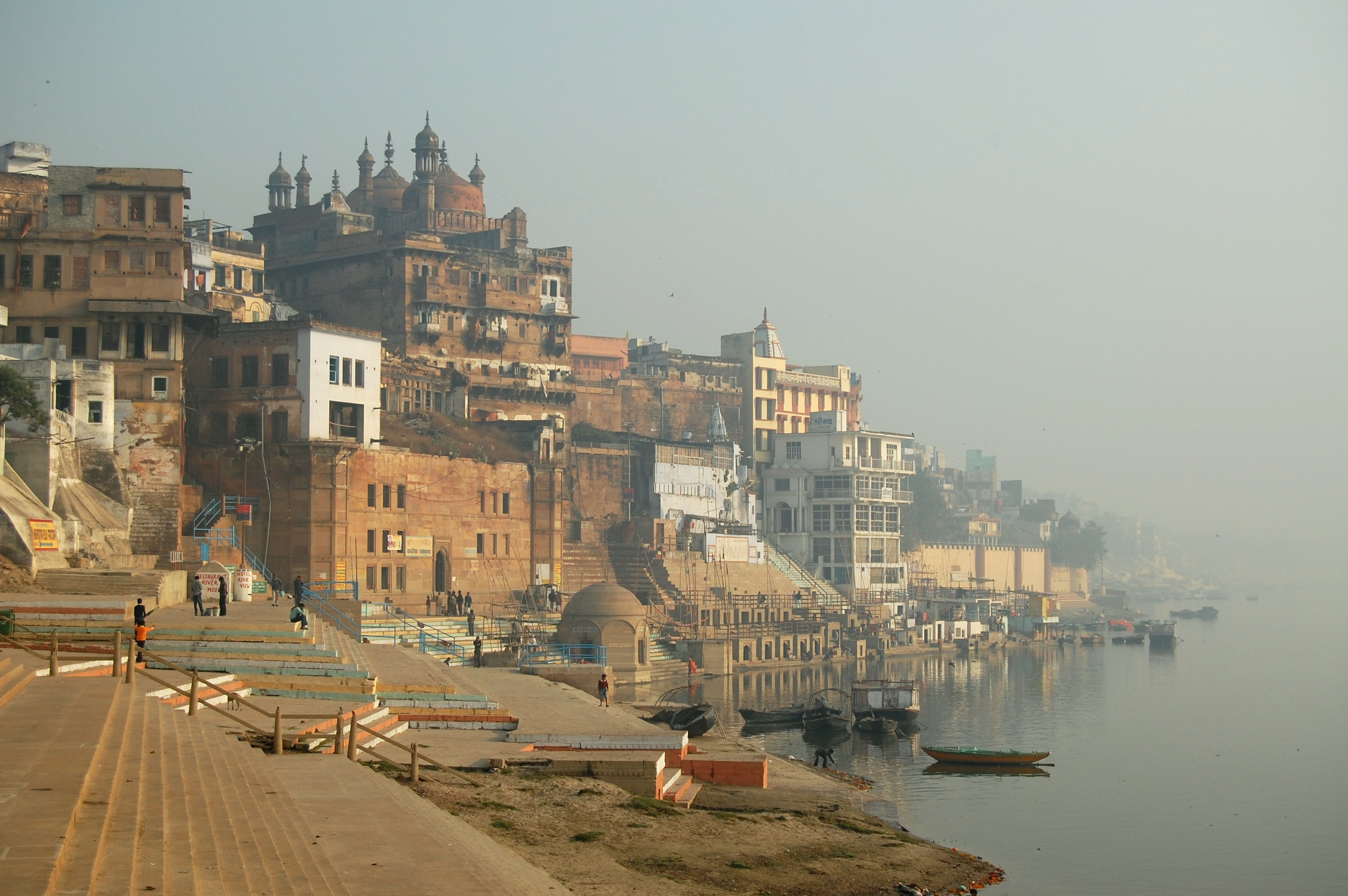 Varanasi, India as seen from Ganga river.